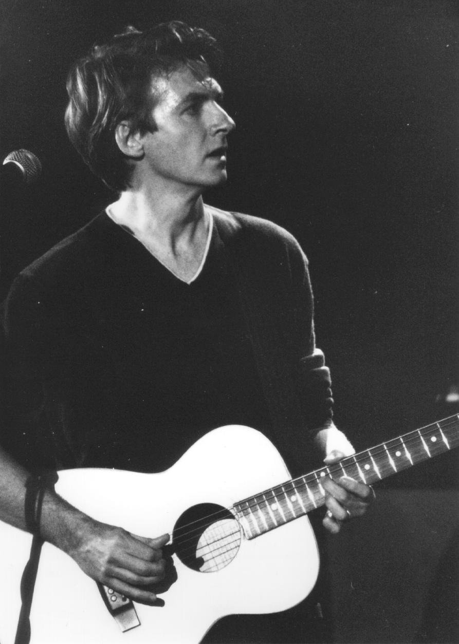 Neil Finn (Crowded House) in Hamburg, June 1996